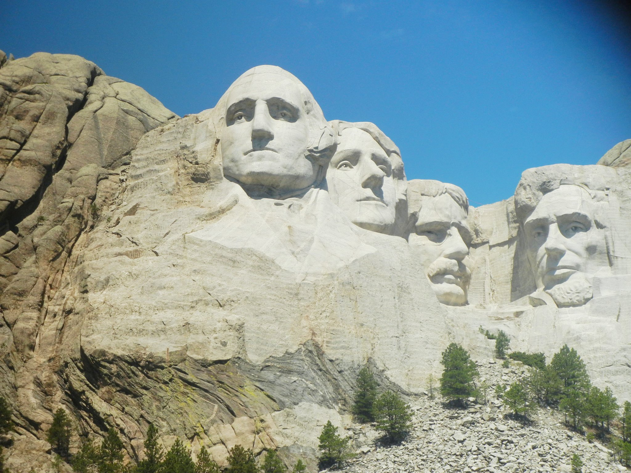 It is a historical place.